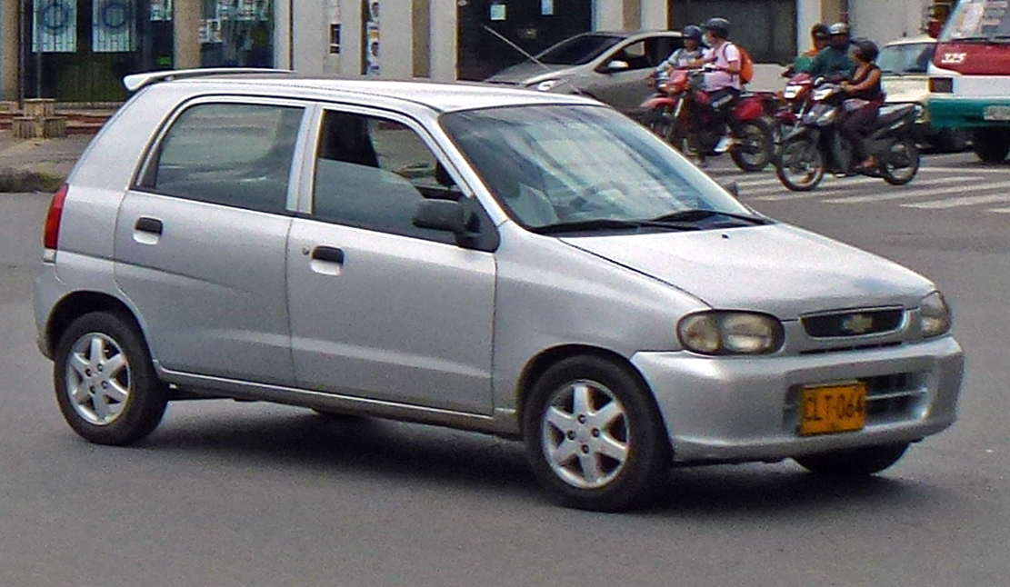 Chevrolet Alto (a Suzuki) in Popayán, Colombia